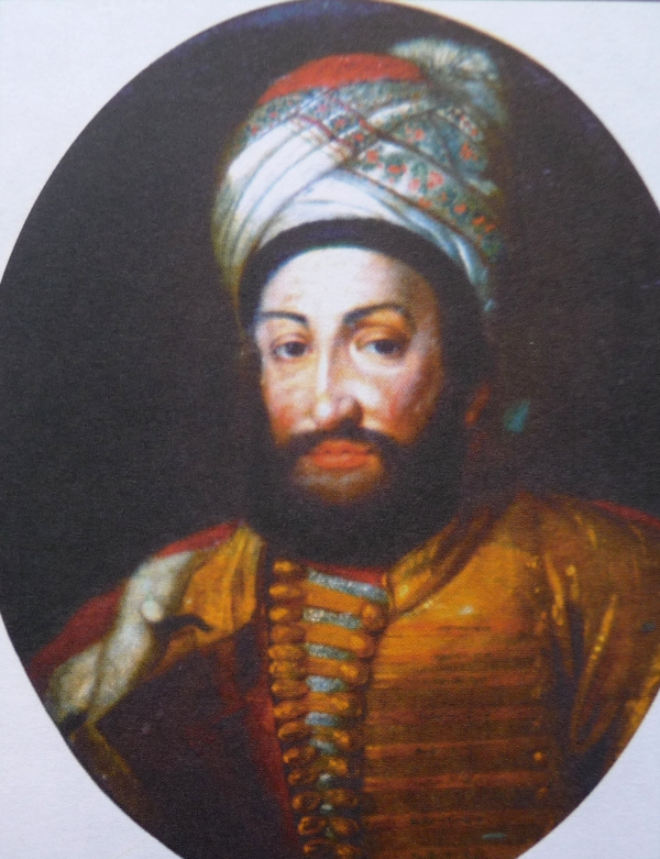 The Georgian king Teimuraz II. Unknown painter of the 18th century